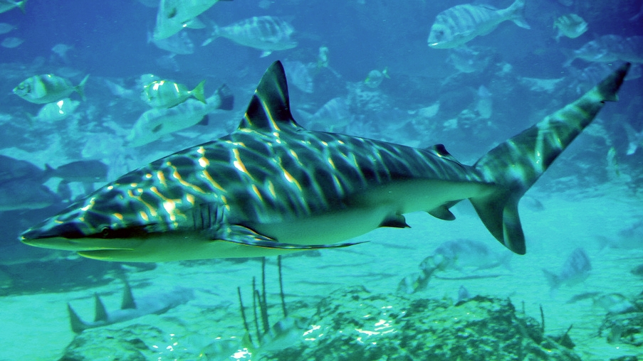 Dusky shark (Carcharhinus obscurus) at SeaWorld, Queensland